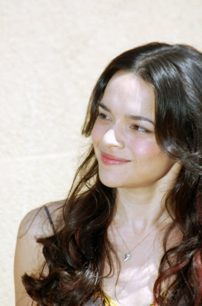 Norah Jones at the Cannes film festival.